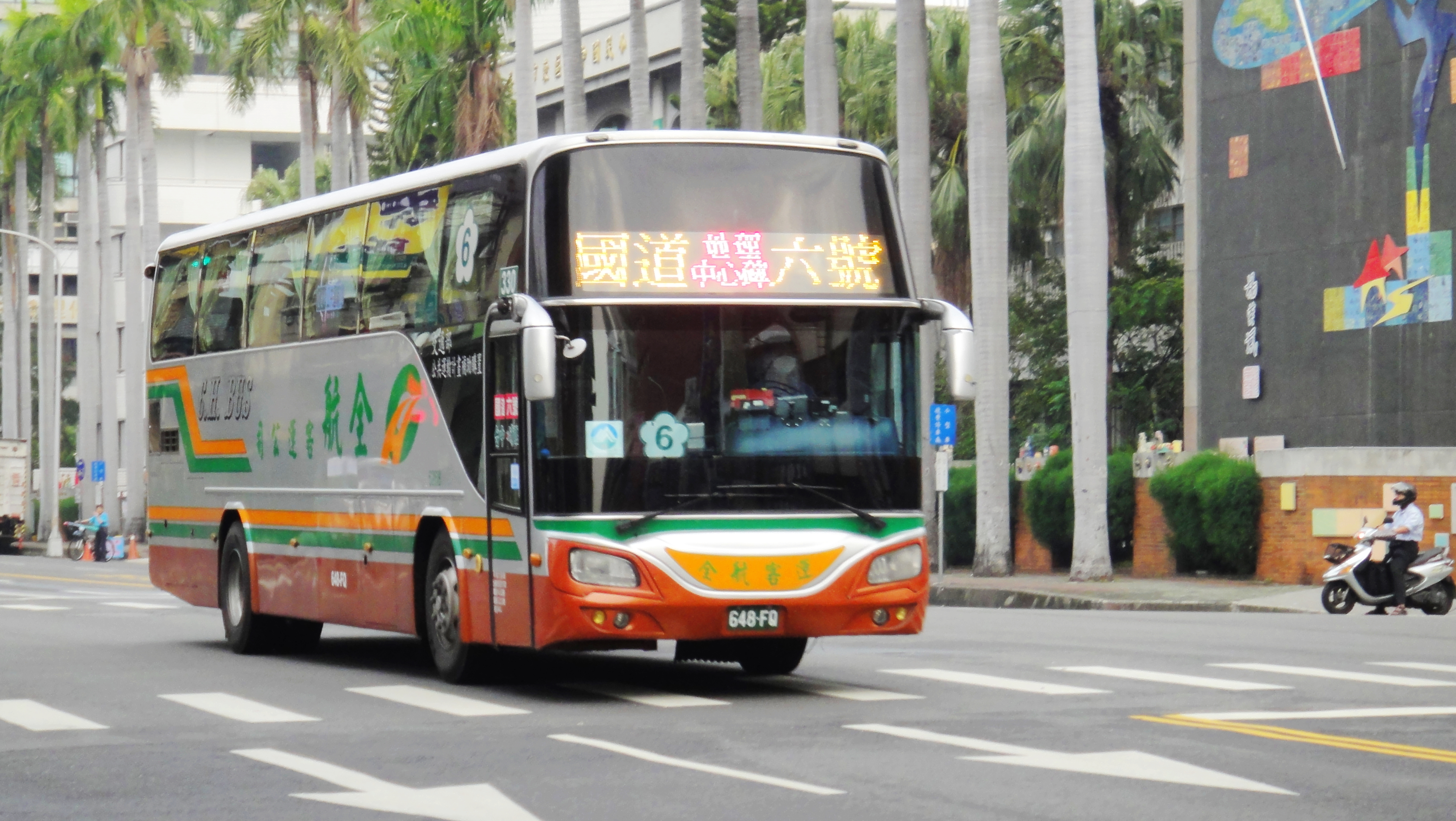 全航客運 648-FQ 6268路